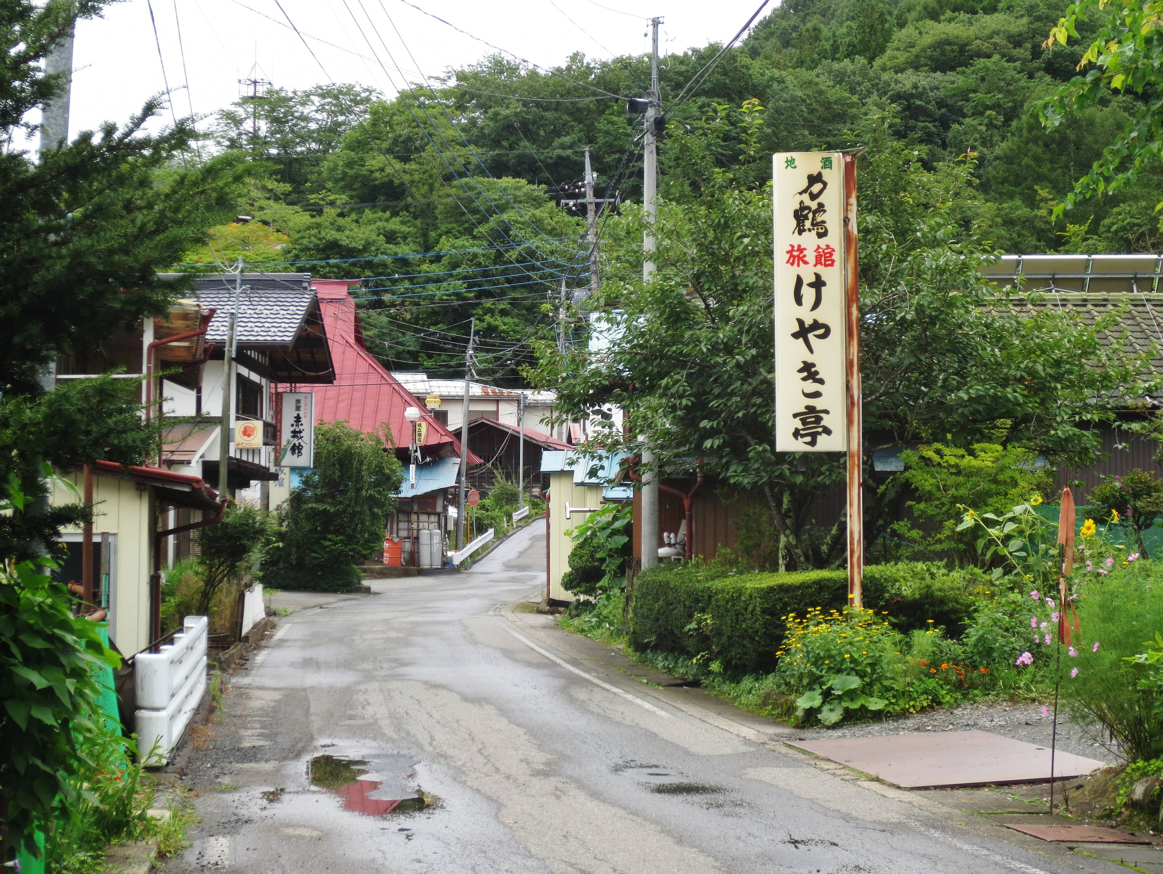 Neri street (Gunma Prefectural Road Route 257).